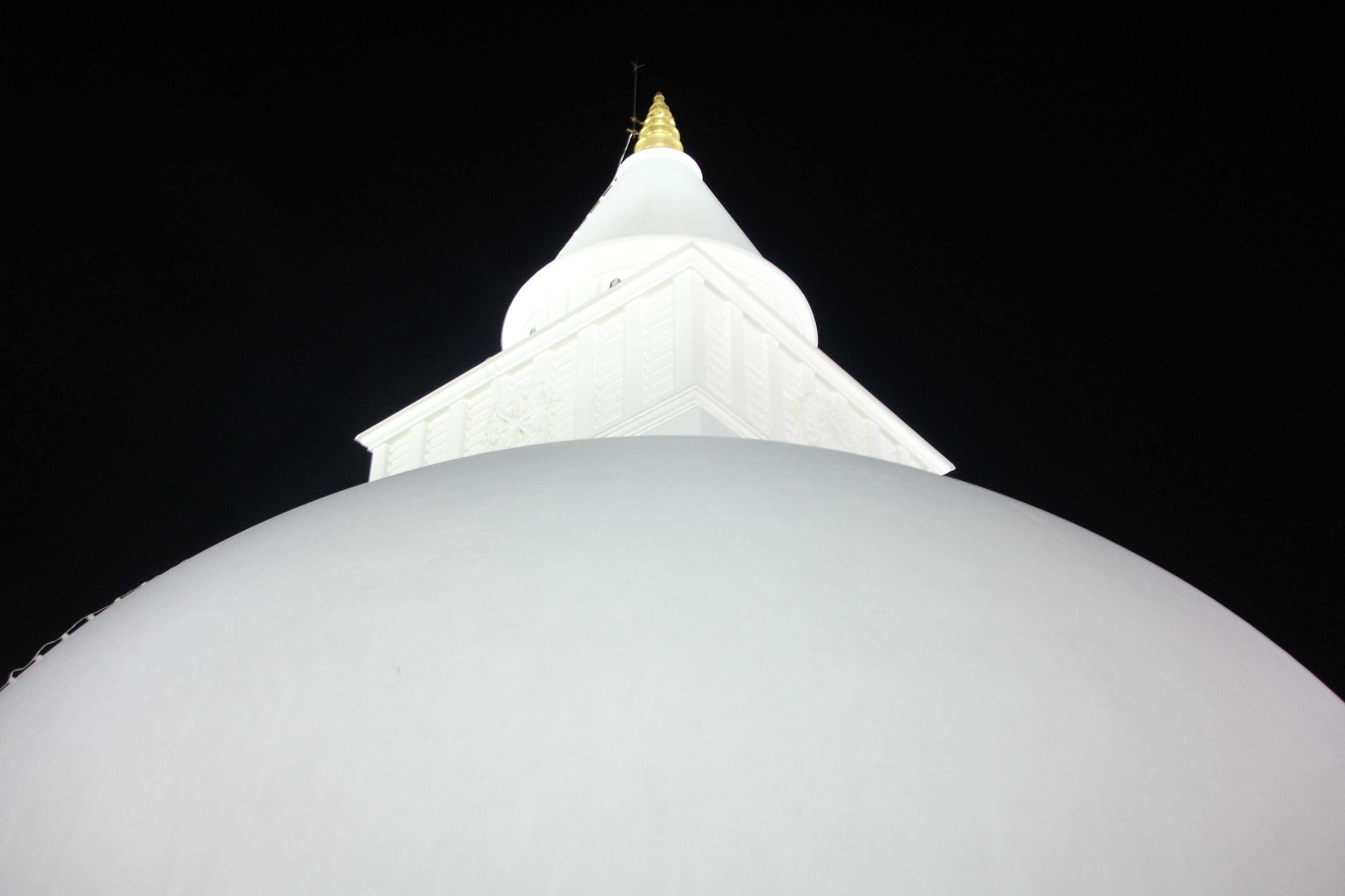 Kiri Vehera, from the base